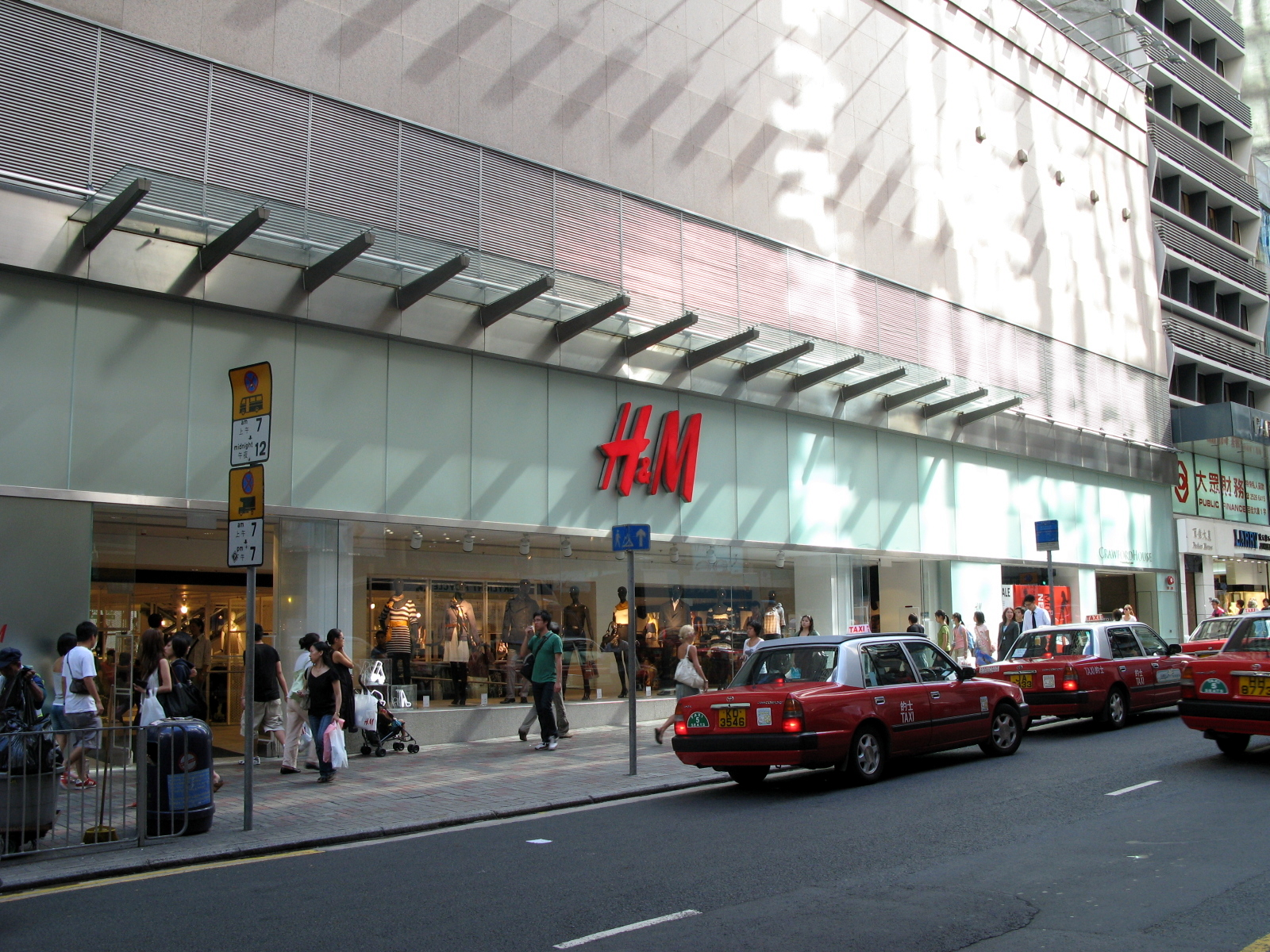 H&M Store Crawford House, Central, Hong Kong